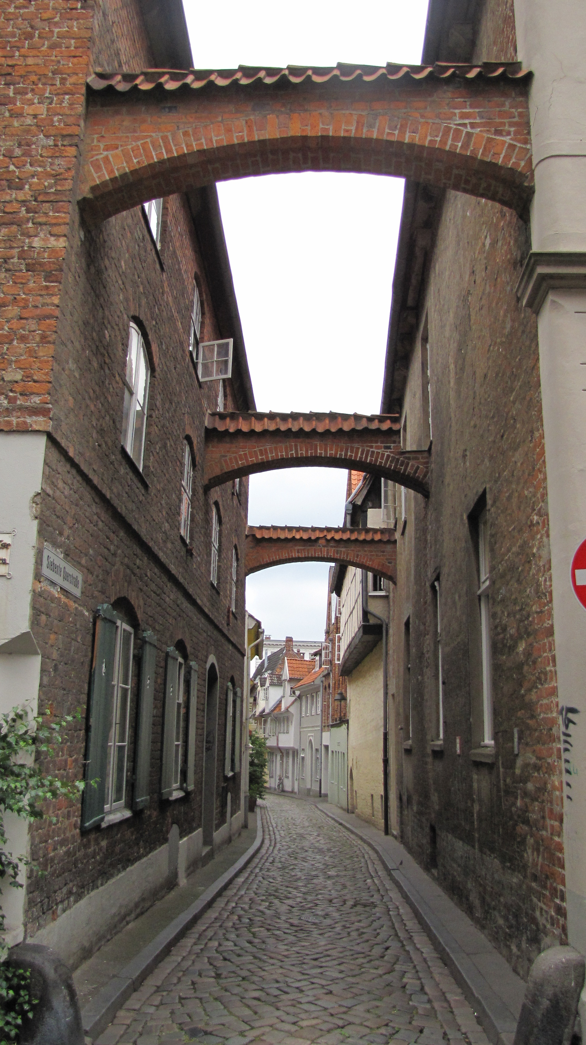 Siebente Querstrasse off Mengstrasse, Lübeck with Schwibbogen